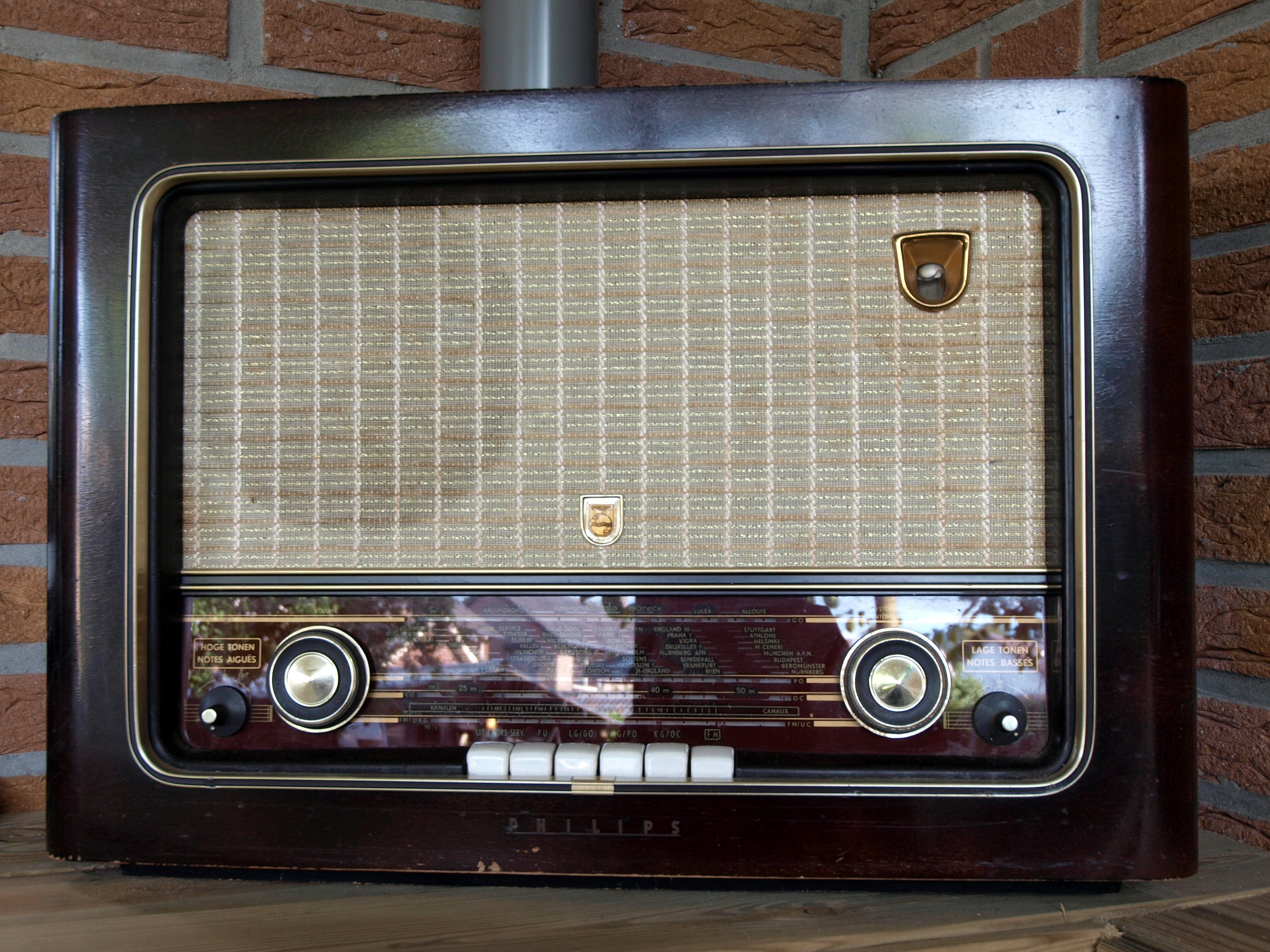 Old Philips Radio